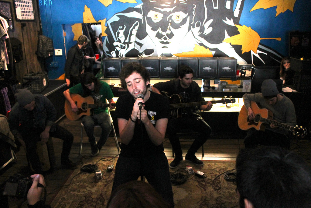 You Me At Six playing an acoustic show at the Atticus store in Hollywood, CA